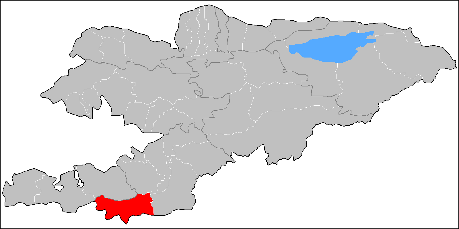 The location of the raion (district) of Chong-Alay in Kyrgyzstan. Based on Image:Kyrgyzstan raions.png